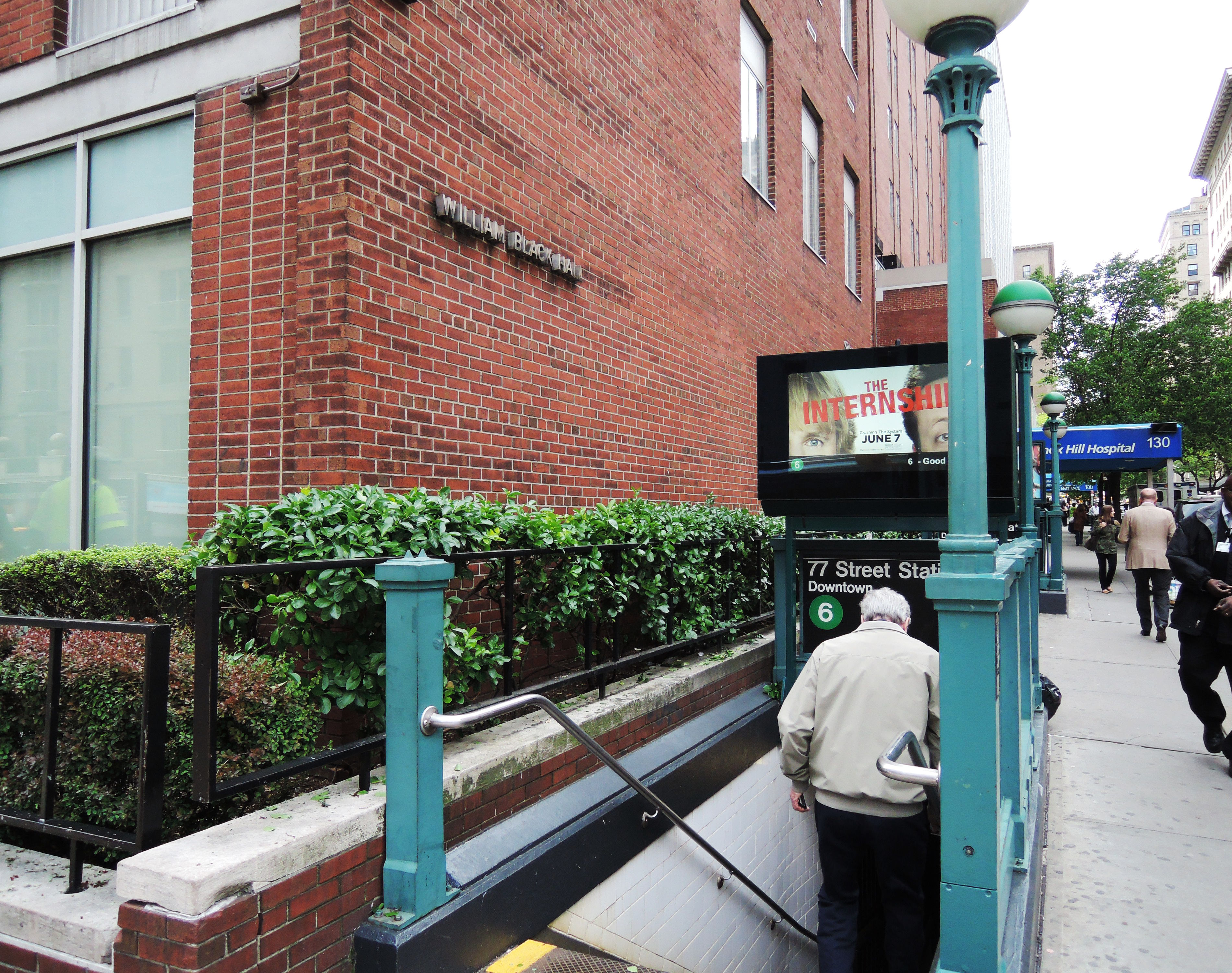 Looking west at southbound stair.